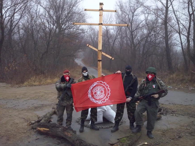 srpskidobrovoljci